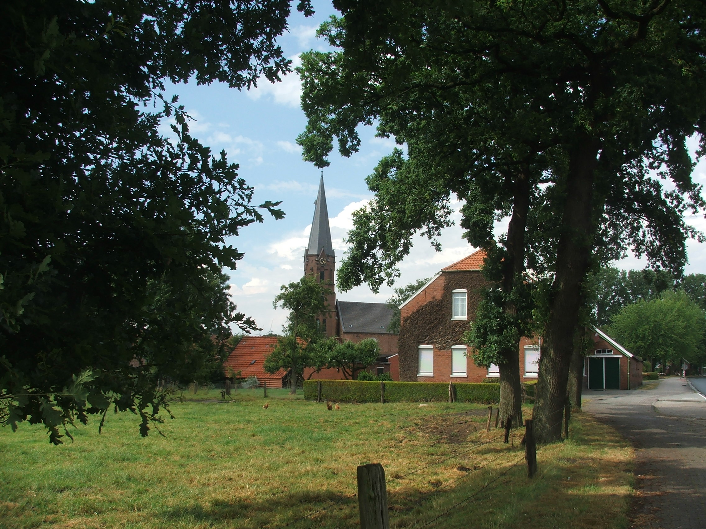 Church in Bagband, Ostfriesland